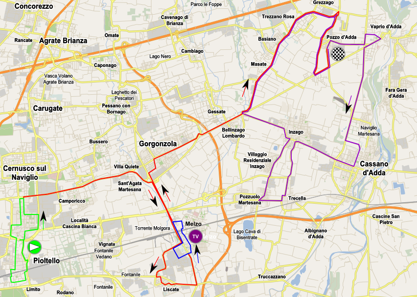 Map of the stage 4 of Giro Donne 2015. Background from OpenStreetMap.